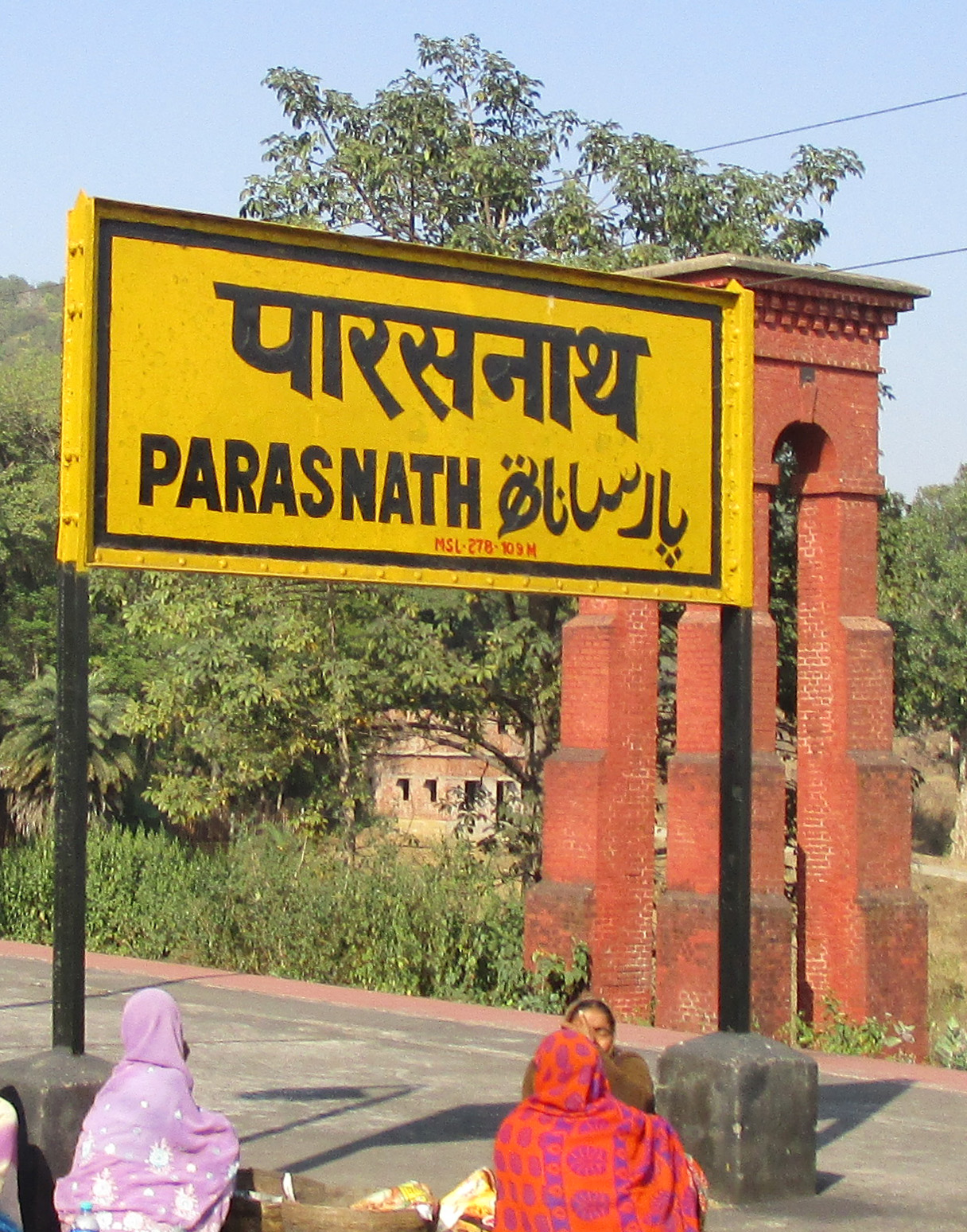 Parasnath railway station nameplate